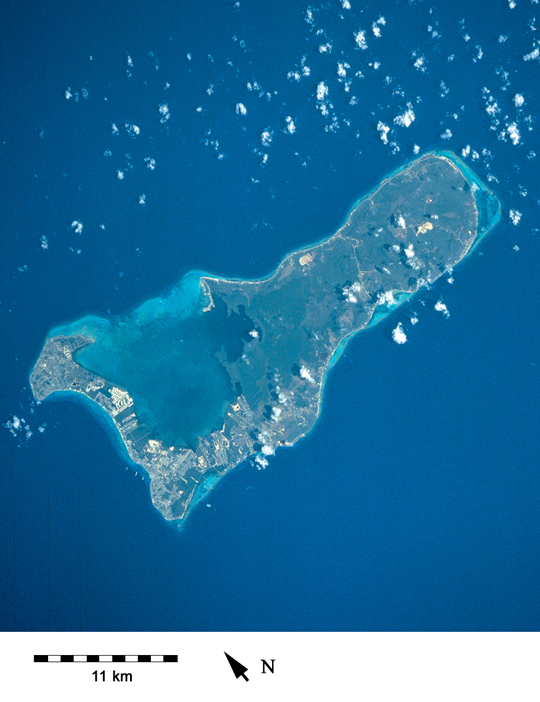 Grand Cayman. The shallow lagoon is surrounded by extensive and important mangrove areas [STS062-84-70, 1994].